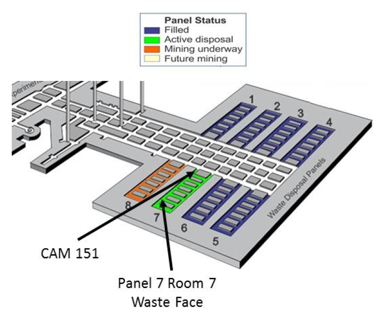 Location of the room and radiation detector involved in incident in WIPP on 14th of February 2014.